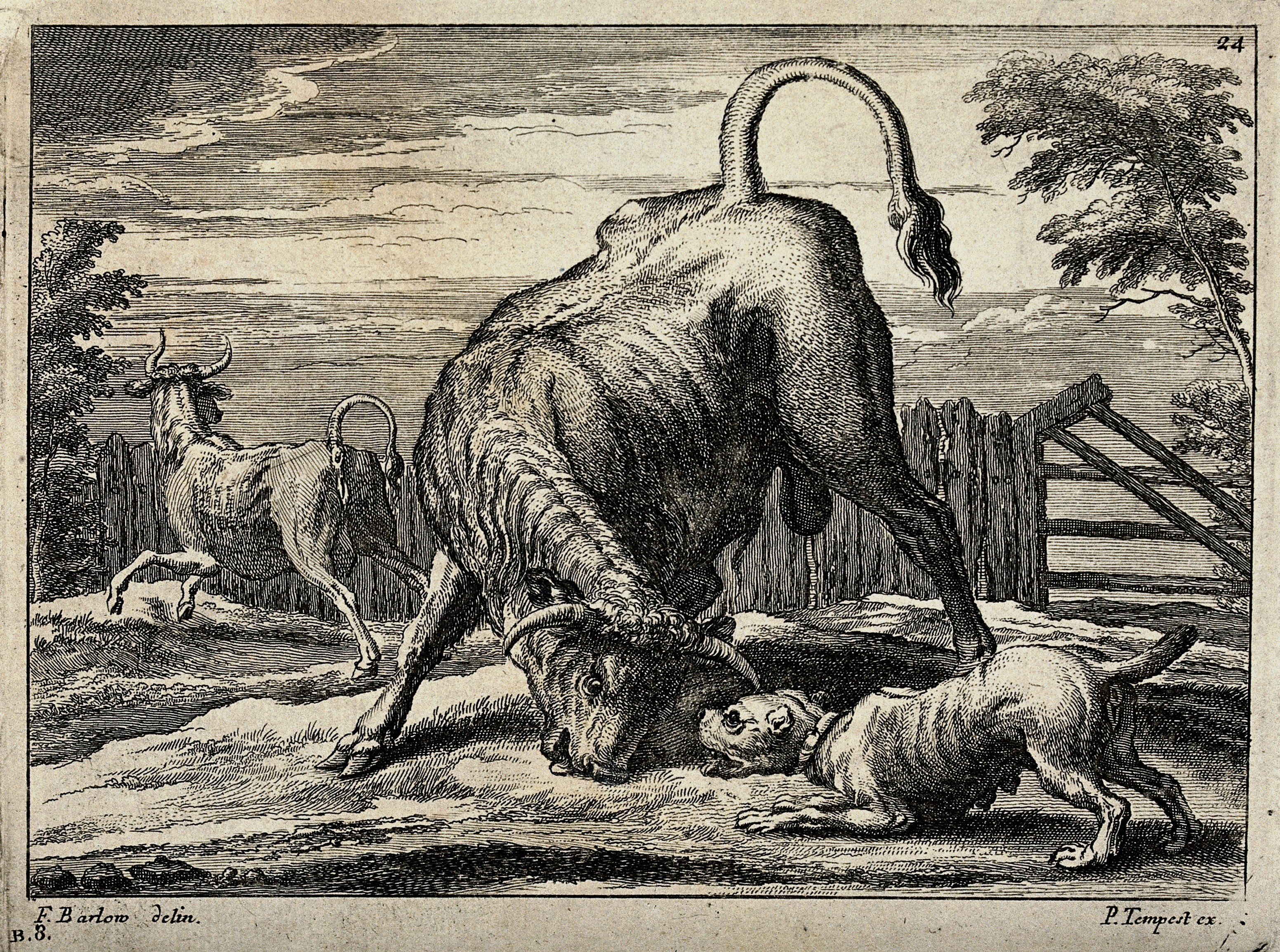 A bull and a bulldog are about to attack each other in an enclosure while another bull is running away. Etching by F. Barlow. Circa 17th century. Iconographic Collections Keywords: Francis Barlow